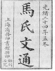 cover of the first edition of the book Ma Shi Wen Tong